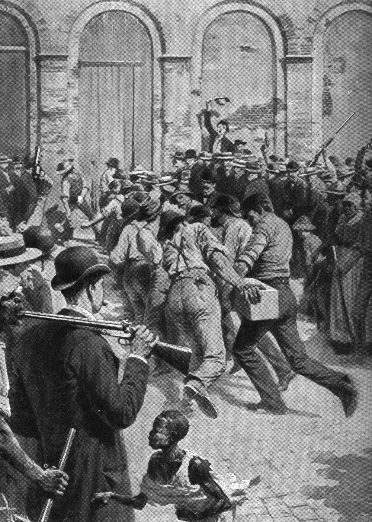 An episode of the lynching of the Italians in New Orleans in 1891 after the murder of police chief David Hennessy. The citizens breaking down the door of the parish prison with the beam brought there the night before for that purpose.